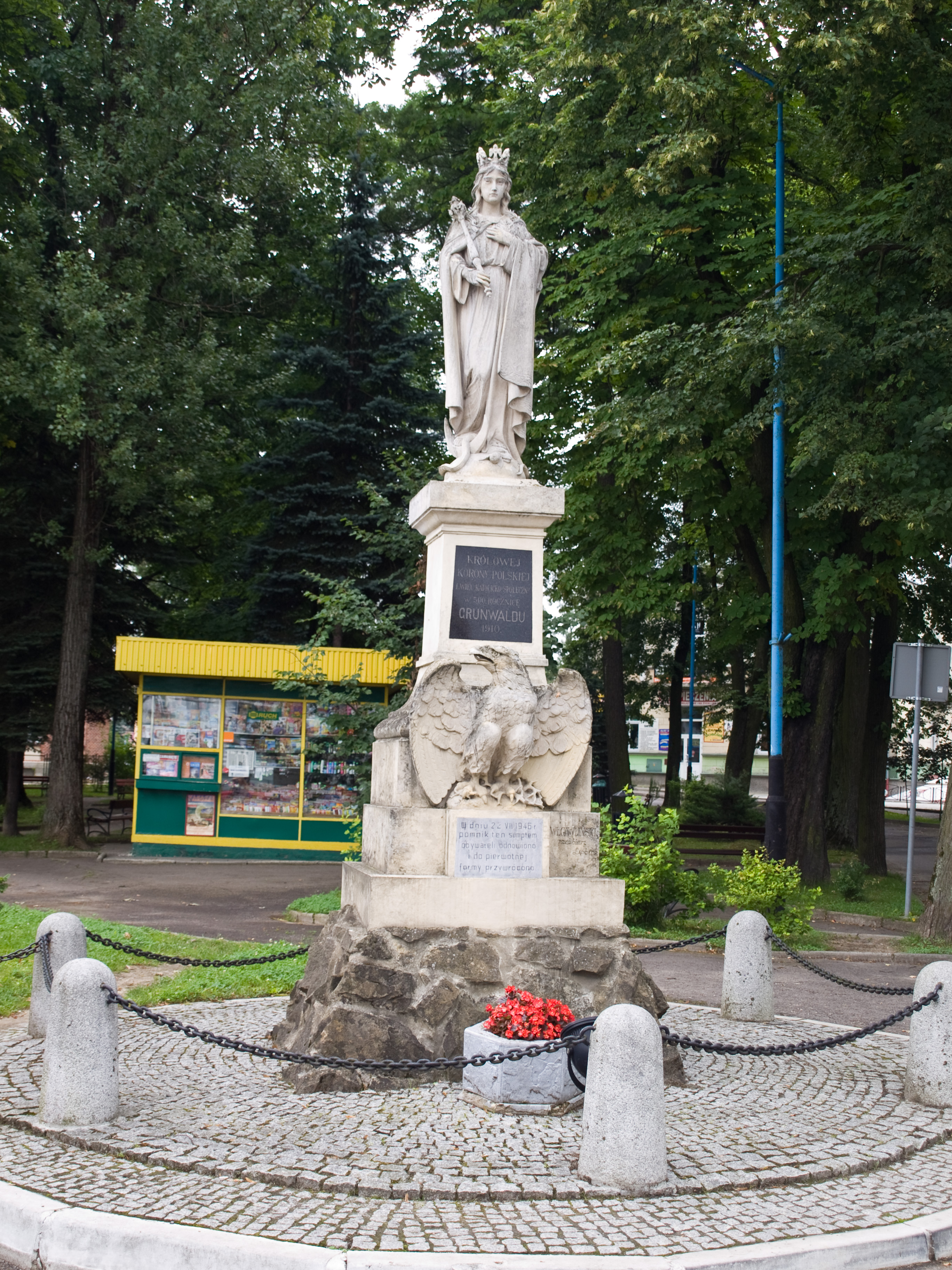 Statue, Brzozów, Subcarpathian Voivodeship